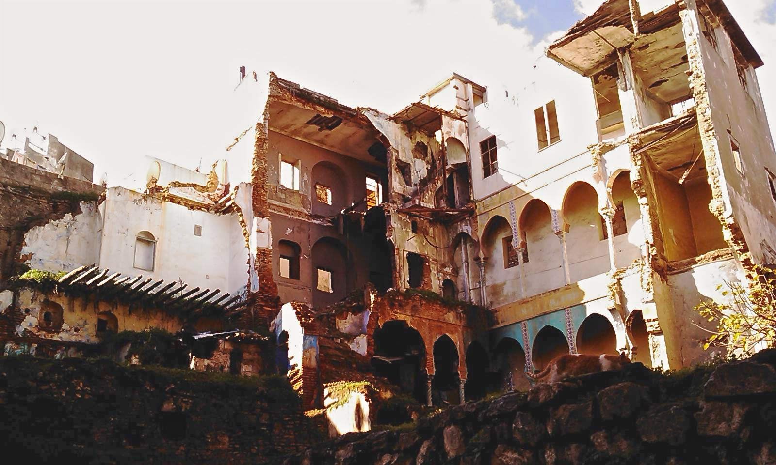 The remains of a house in the Casbah of Algiers destroyed in the explosion that killed Ali la Pointe, Hassiba Ben Bouali, Petit Omar and Mohamed Bouhmidi, october 8, 1957